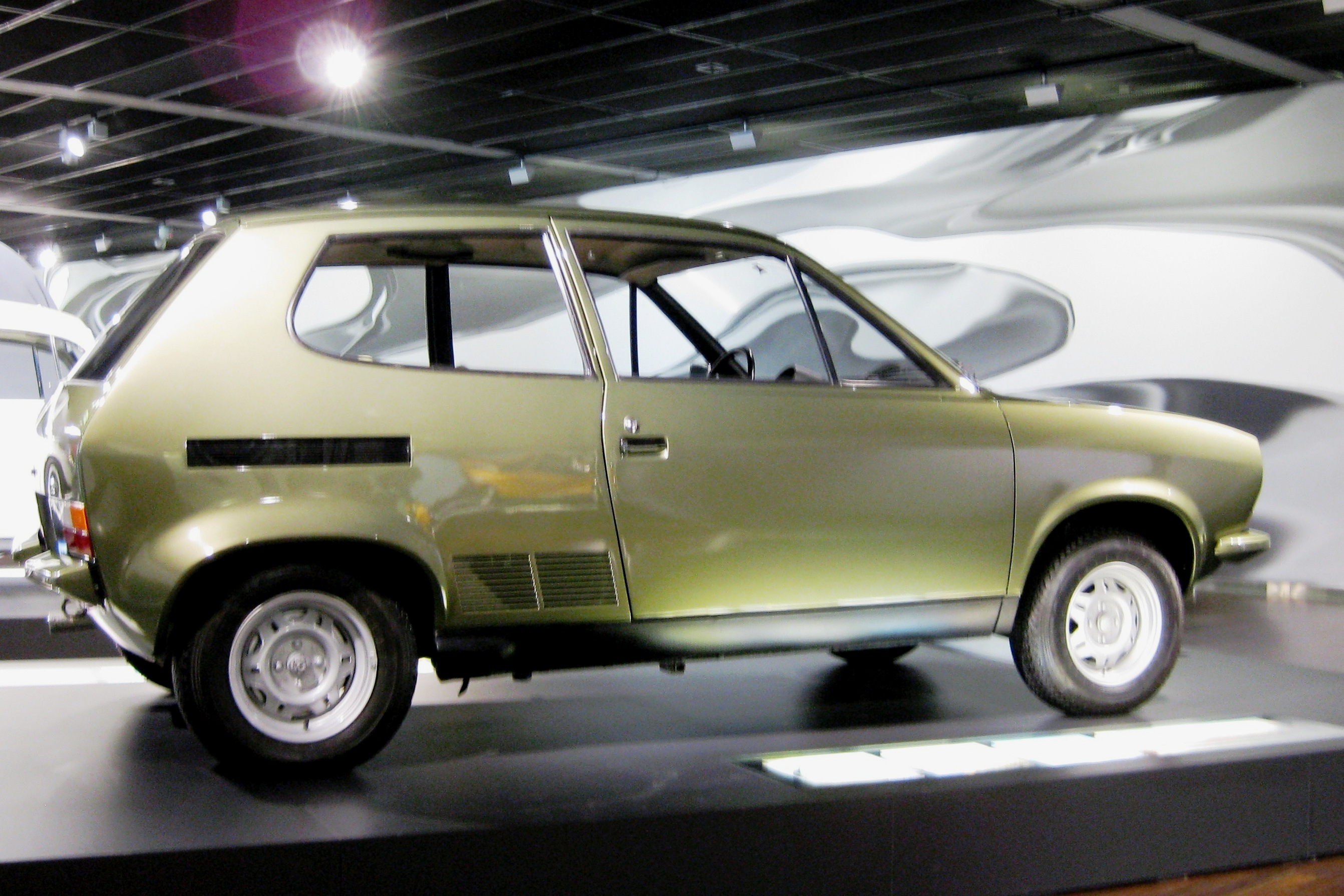 Volkswagen EA266 at Autostadt, Wolfsburg.